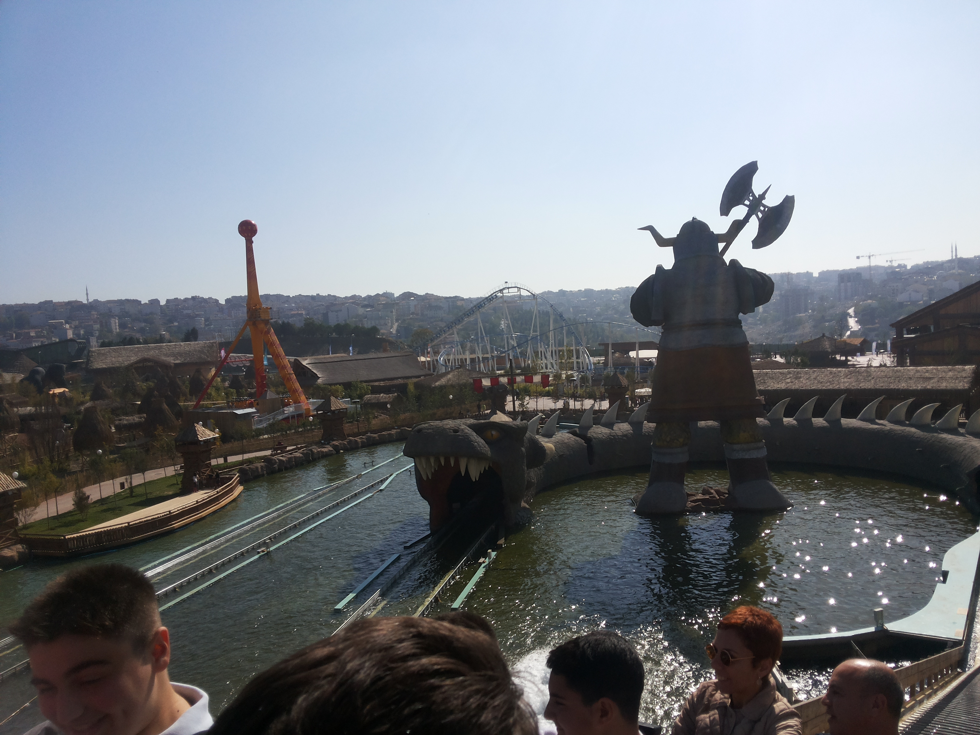 Vialand Theme Park, Istanbul, Turkey.